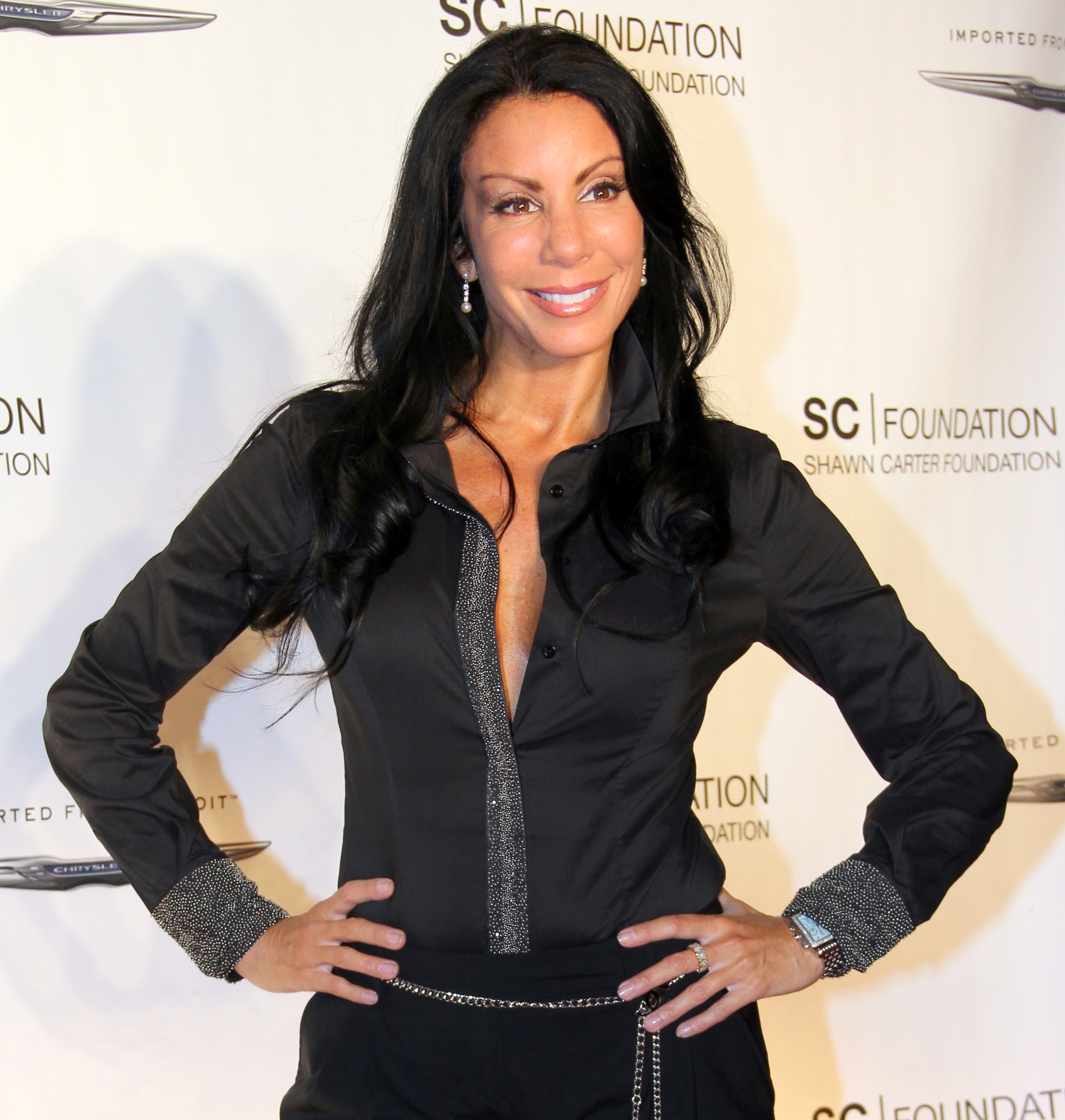 Danielle Staub at the Shawn 'Jay-Z' Carter Foundation Carnival 2011.